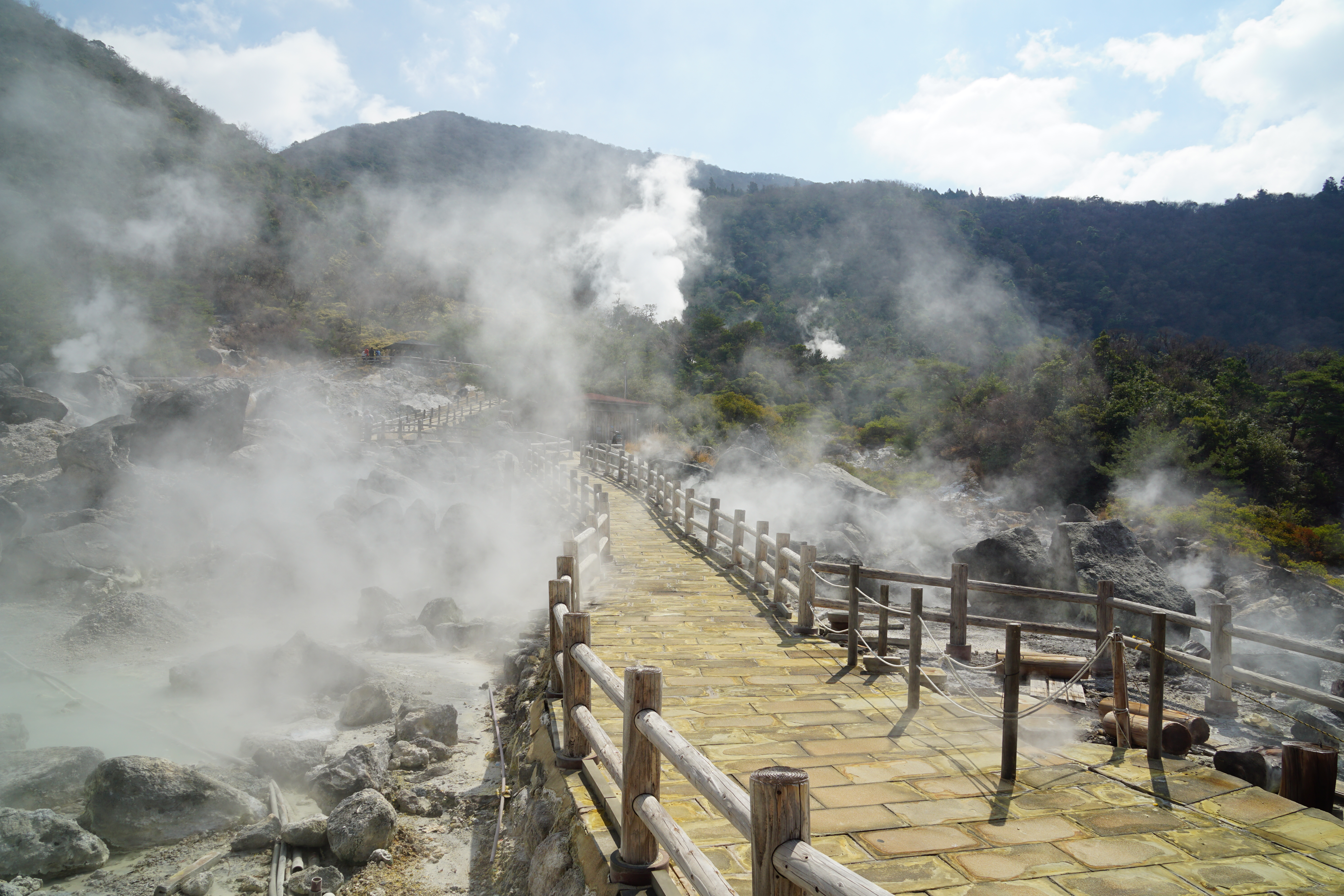 A Jigoku of Unzen Onsen in Unzen City, Nagasaki prefecture, Japan.